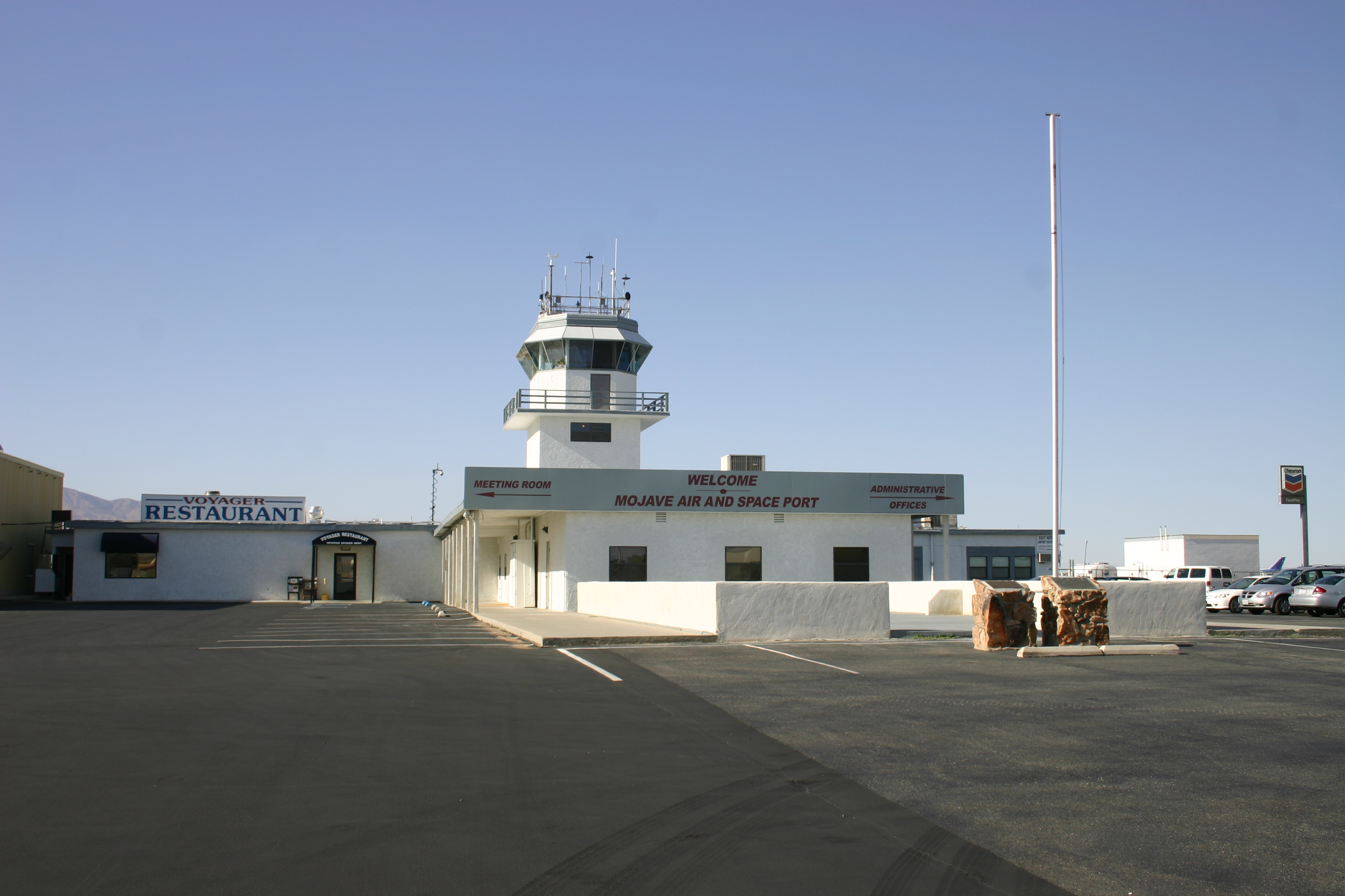 Administration building, restaurant and old tower at the Mojave Airport and Spaceport - the parking lot is empty because the photo was taken late in the day after the restaurant and offices had closed